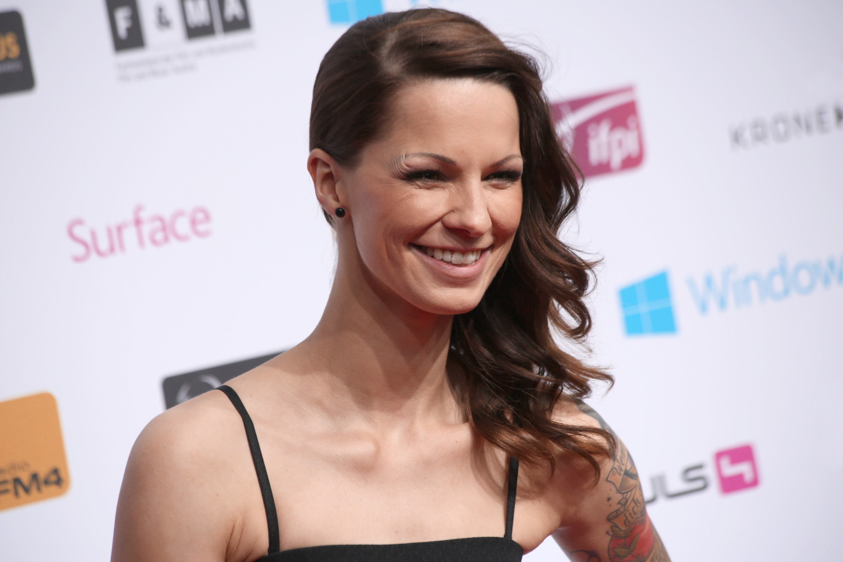 Christina Stürmer at the Amadeus Austrian Music Award 2014 at Volkstheater in Vienna